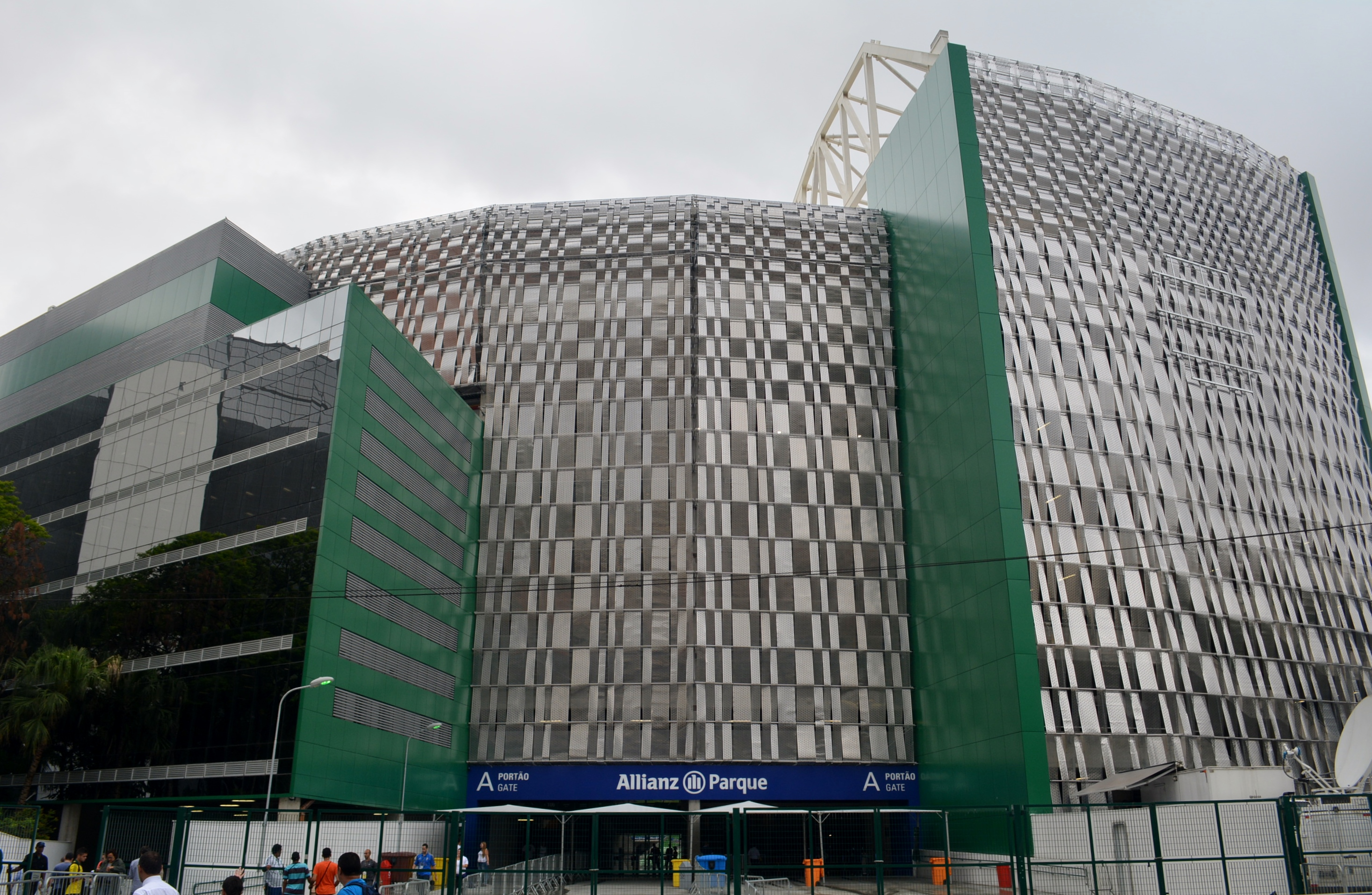 Allianz Parque is a multipurpose stadium in São Paulo, Brazil, built to receive shows, concerts, corporate events and especially football matches of Sociedade Esportiva Palmeiras, the site owner.